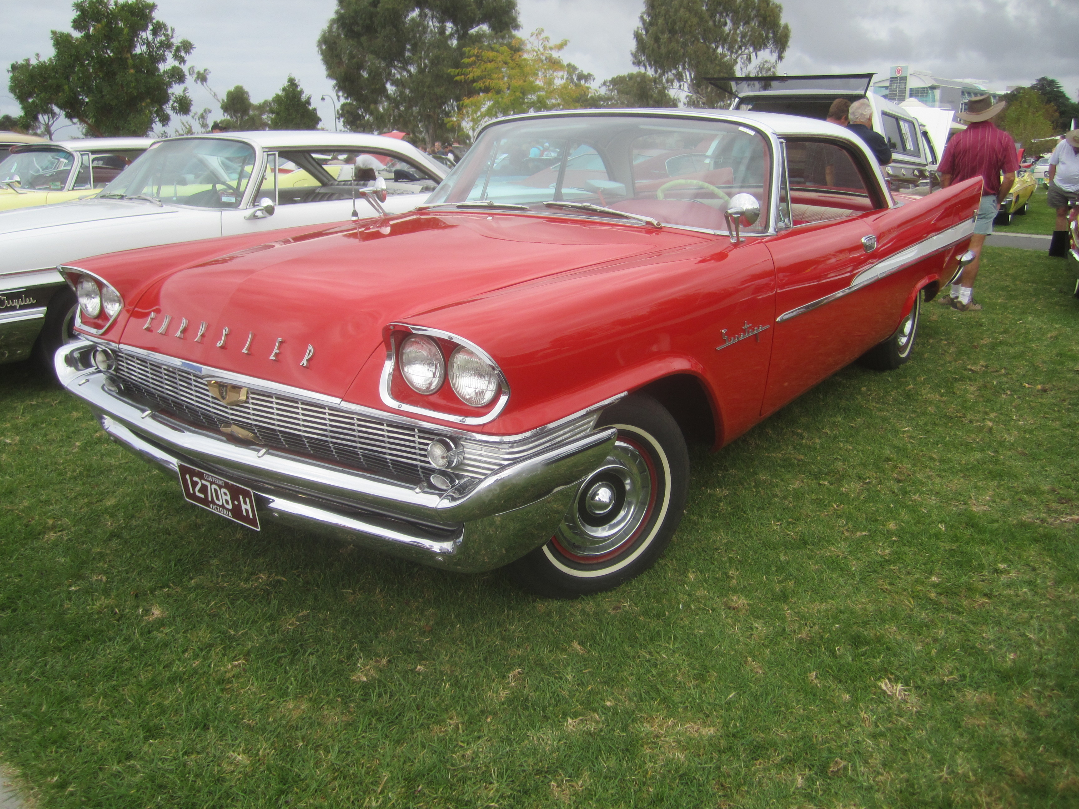 The Saratoga (this model built from 1957-60) was the mid spec model between the base Windsor and top spec New Yorker. 1957 saw taller tailfins and quad headlights. In 1958 it shared many design features with the Dodge. Engine; 354 cu in V8